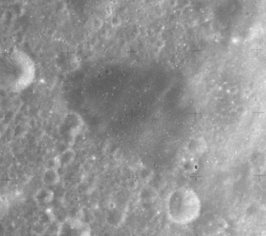 Schubert F crater (west of Schubert), on the moon.